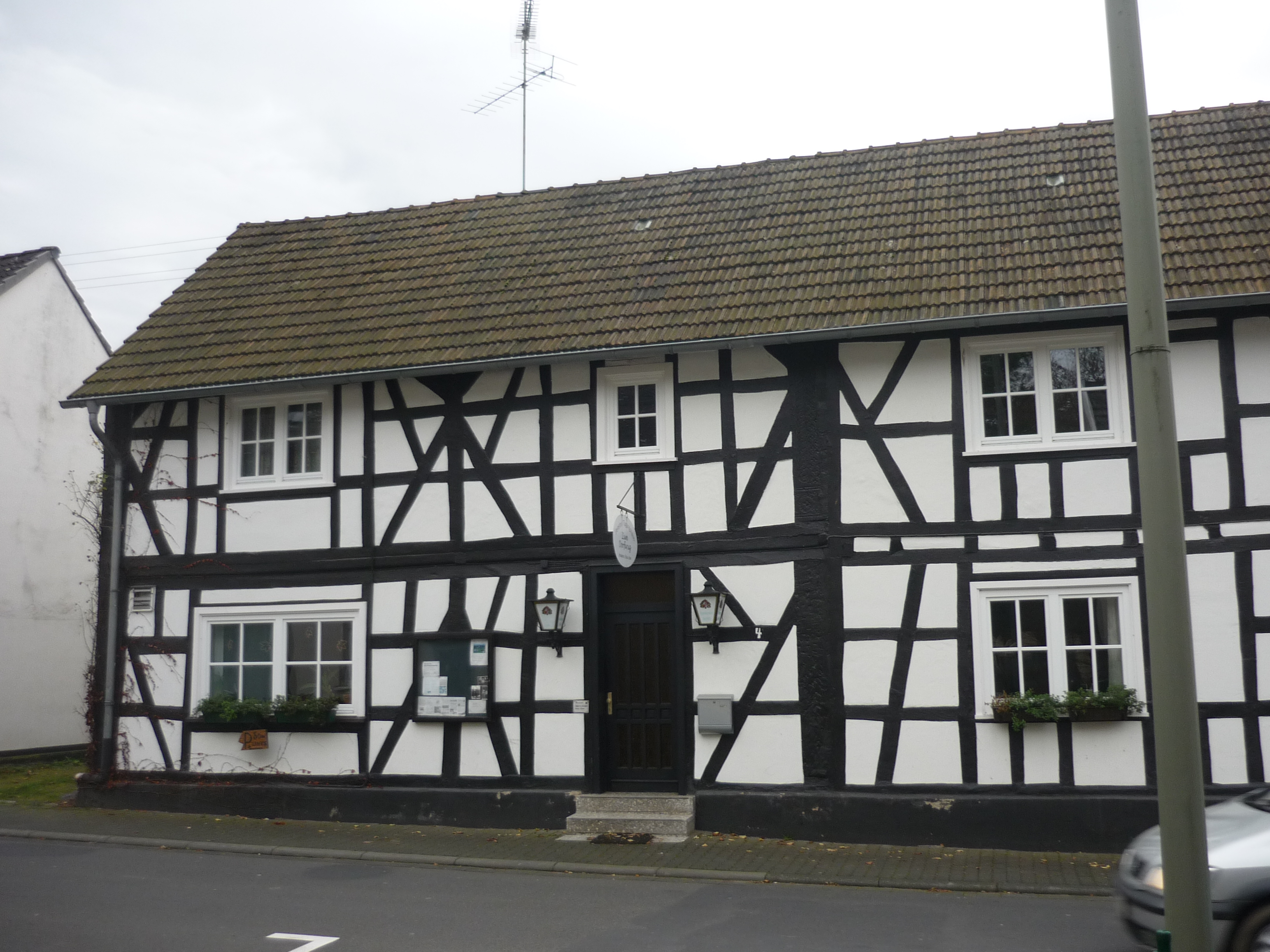 old house in schoeneberg westerwald